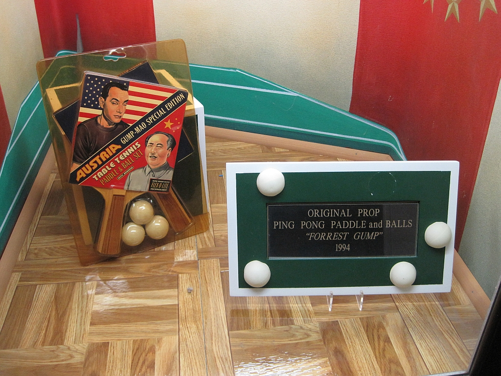 Hollywood Memorabilia Exhibit at the Hollywood Casino in Tunica, Mississippi. "Forrest Gump" ping pong balls